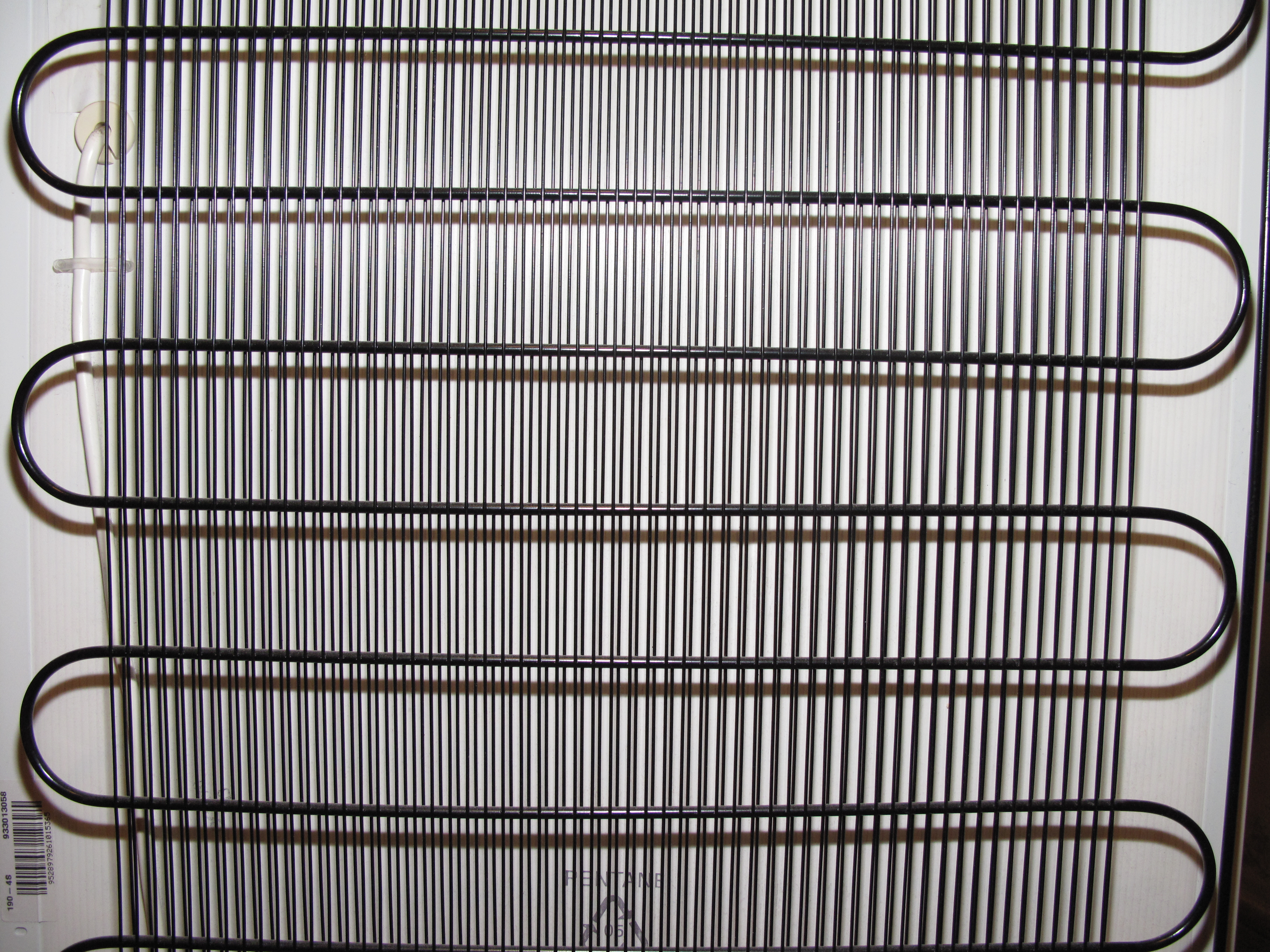 Condenser, Zanussi fridge, type ZRA 319 SW.